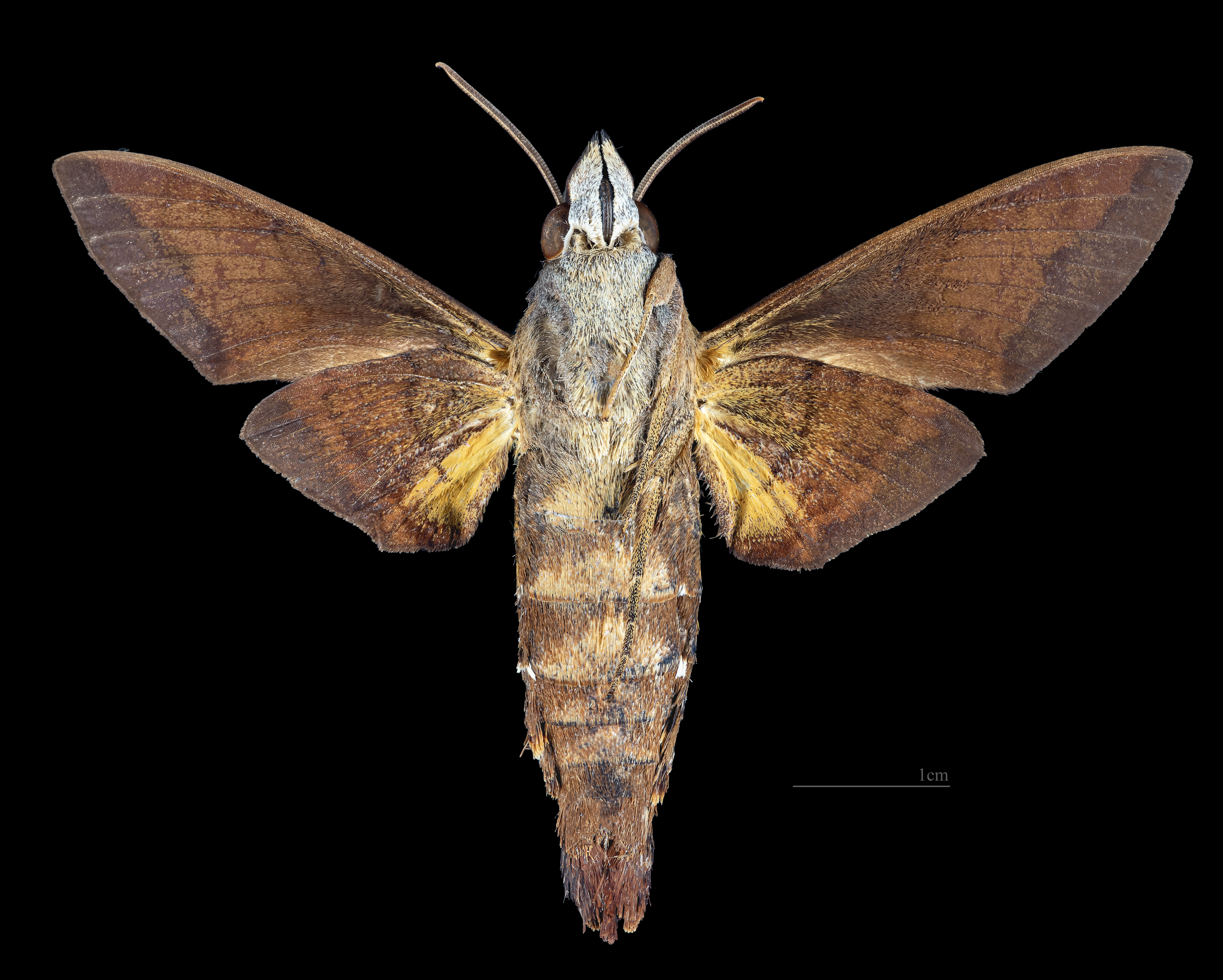 Macroglossum faro - △ Ventral side Collection of the Mathematician Laurent Schwartz